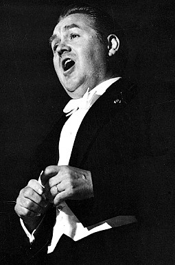 Swedish operatic tenor Jussi Björling performing at Skansen, Stockholm August 20, 1960. According to Forsell (see below) this was his last performance ever.